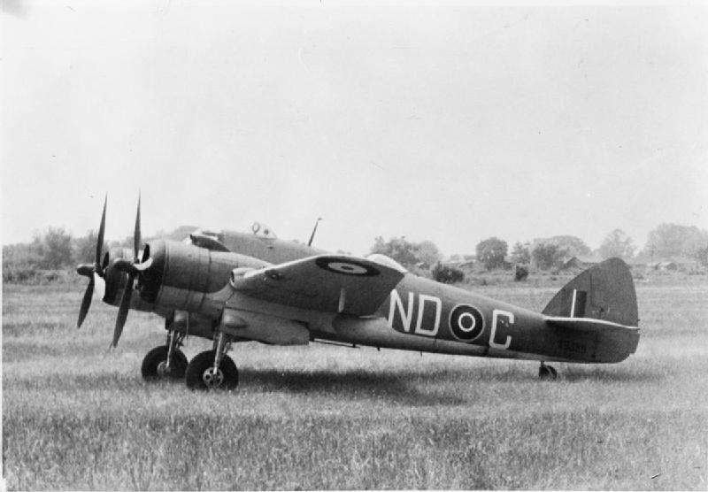 Royal Air Force Coastal Command, 1939-1945. Bristol Beaufighter Mark IC, T4800 'ND-C', of No. 236 Squadron RAF, on the ground at Wattisham, Suffolk. On 12 June 1942, Flight Lieutenant A.K. Gatward with his navigator Sergeant G. Fern, took off from Thorney Island and flew T4800 at low-level to Paris where they dropped a French Tricolour on the Arc de Triomphe, and then attacked the Gestapo Headquarters in the Ministere de la Marine with cannon fire. Upon returning safely, Gatward was awarded an immediate DFC.